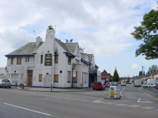 Dog and Gun Pub and Carr Lane East, Croxteth. The derelict Dog and Gun public house at the junction of Carr Lane East with Croxteth Hall Lane, Croxteth. The area took its name from the 19th century inn.